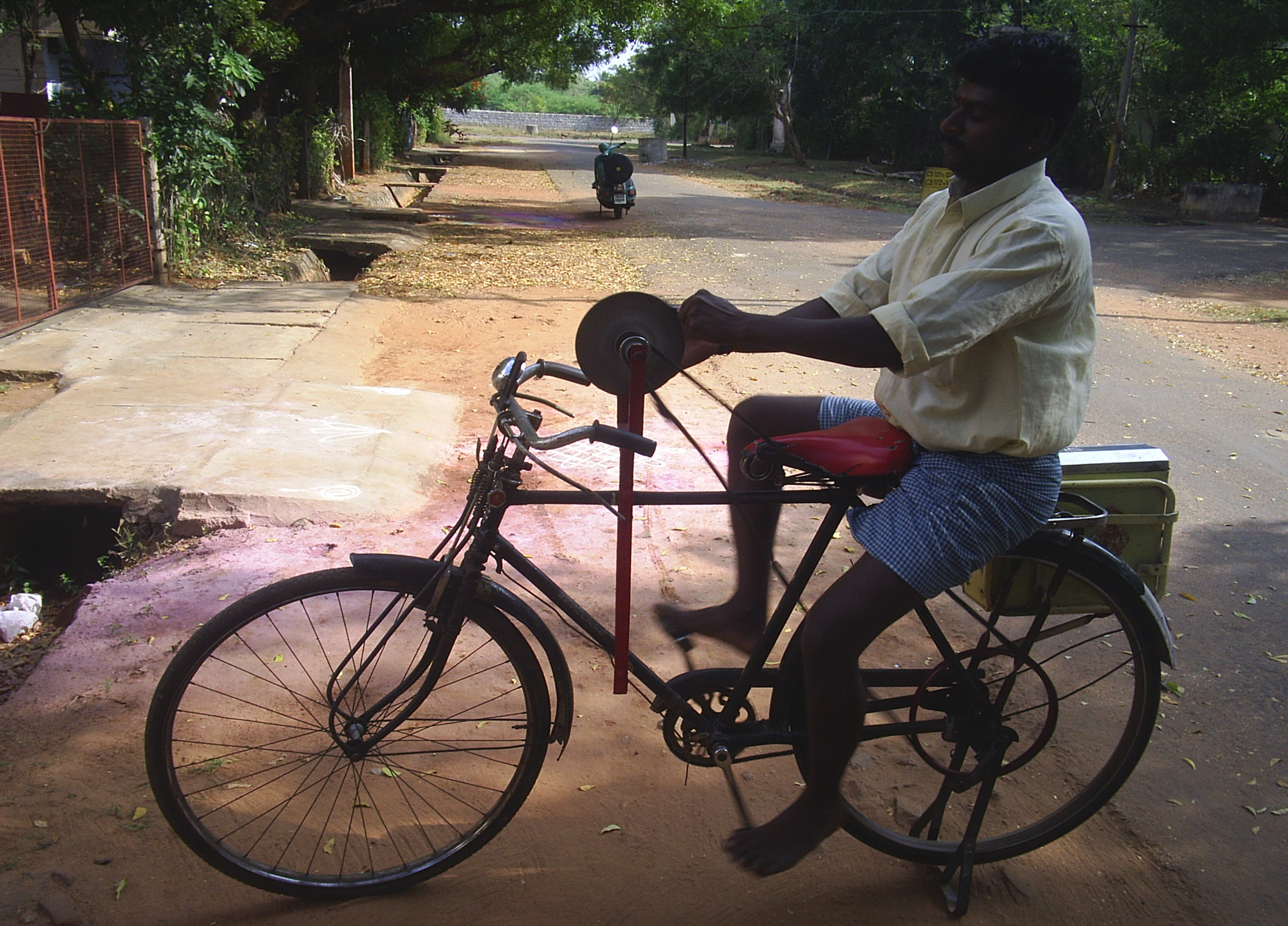 Conventional knife grinding taken in Trichy (சாணை பிடித்தல்)